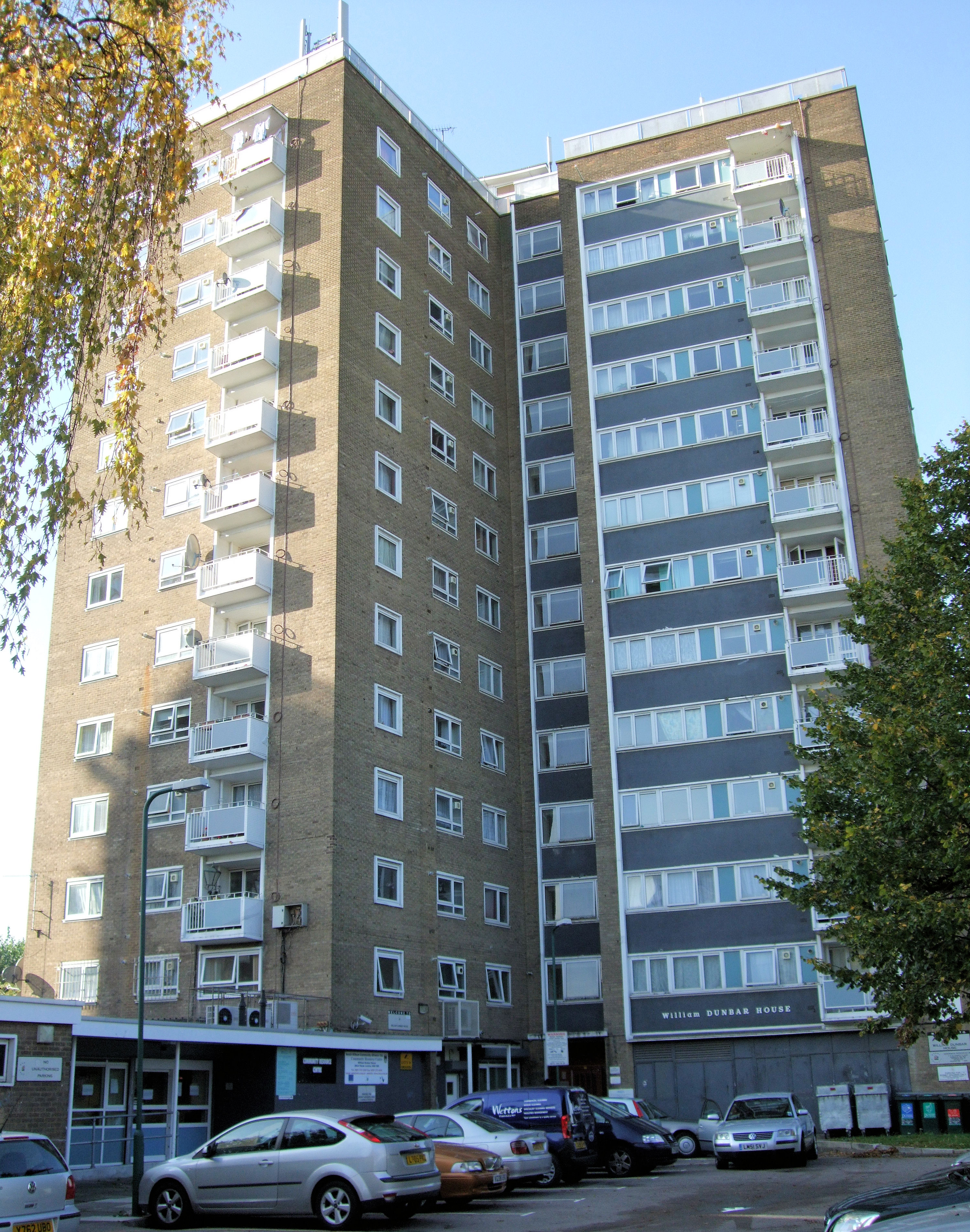 William Dunbar House is a 13-storey tower block on the South Kilburn Estate in Brent, West London constructed in 1962. It is 37m tall. In the 60s it was the home of the influencial London science fiction fan, Ella Parker. Her flat became a meeting place for SF fans and authors including Michael Moorcock, Judith Merril, Terry Pratchett, E.C.Tubb, William Temple, Christopher Priest, Robert Bloch, John Brunner, Langdon Jones, and Charles Platt.